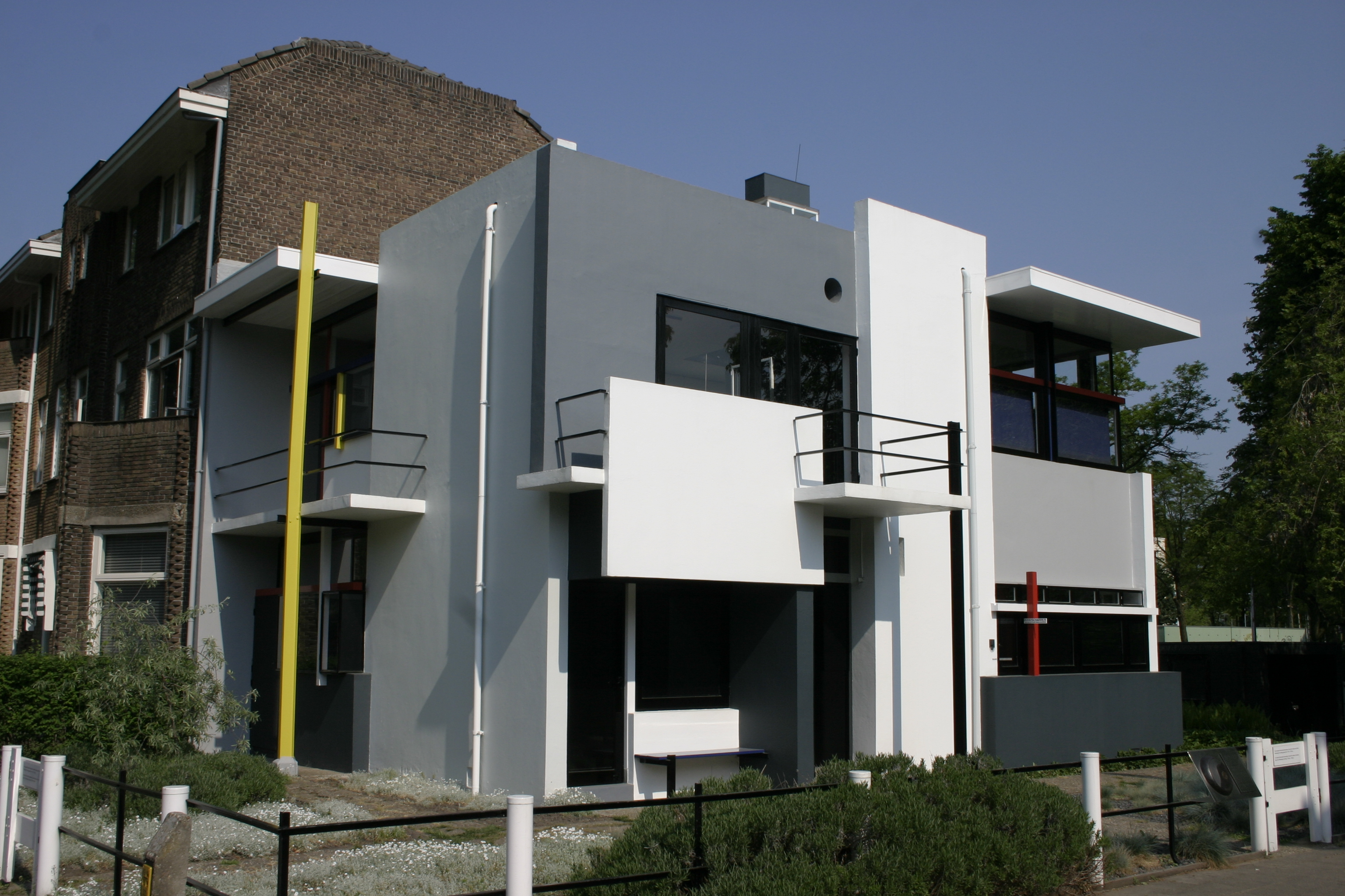 front-view on the Rietveld-Schröder-House in Utecht-Netherlands